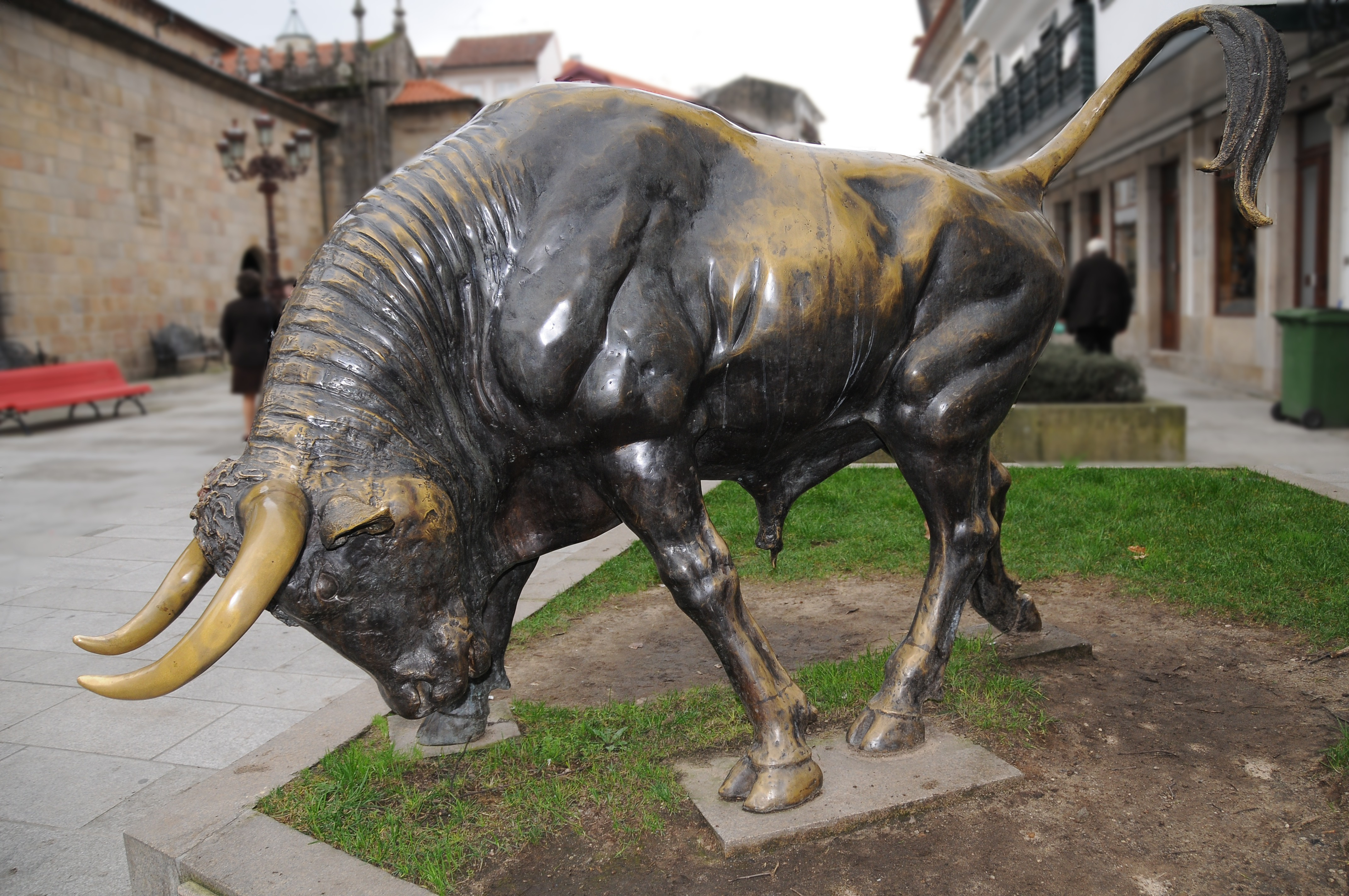 Statue of a bull in Ponte de Lima, Portugal.